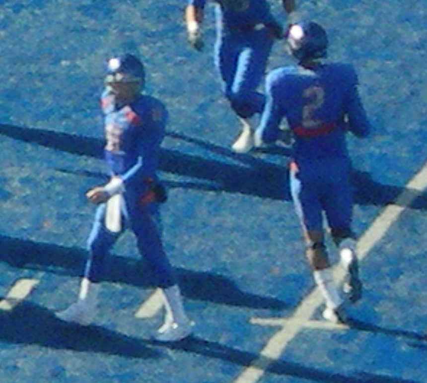 Boise State's Kellen Moore and Austin Pettis during a game against the Idaho Vandals in Boise, ID on November 14, 2009